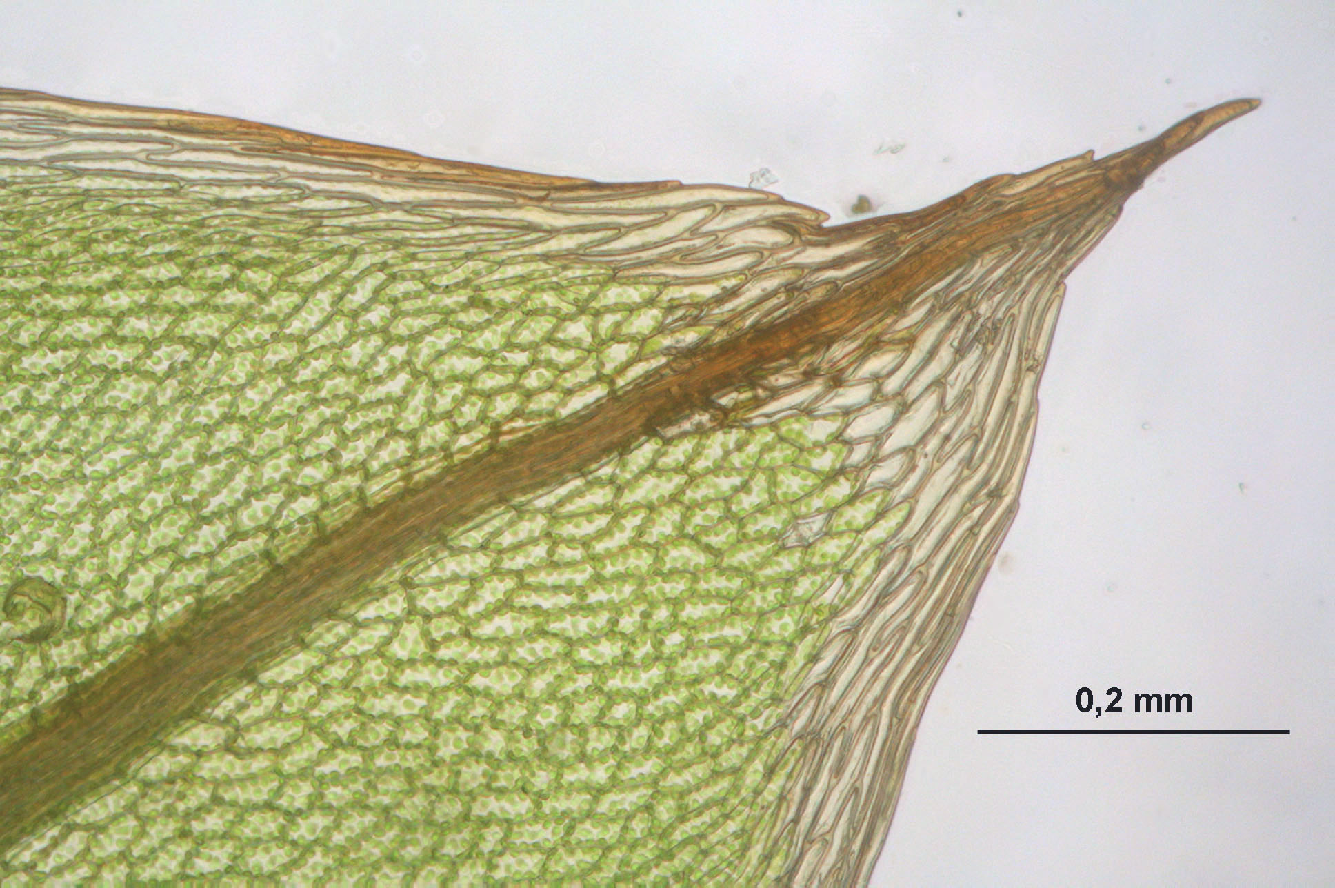 Bryum pseudotriquetrum